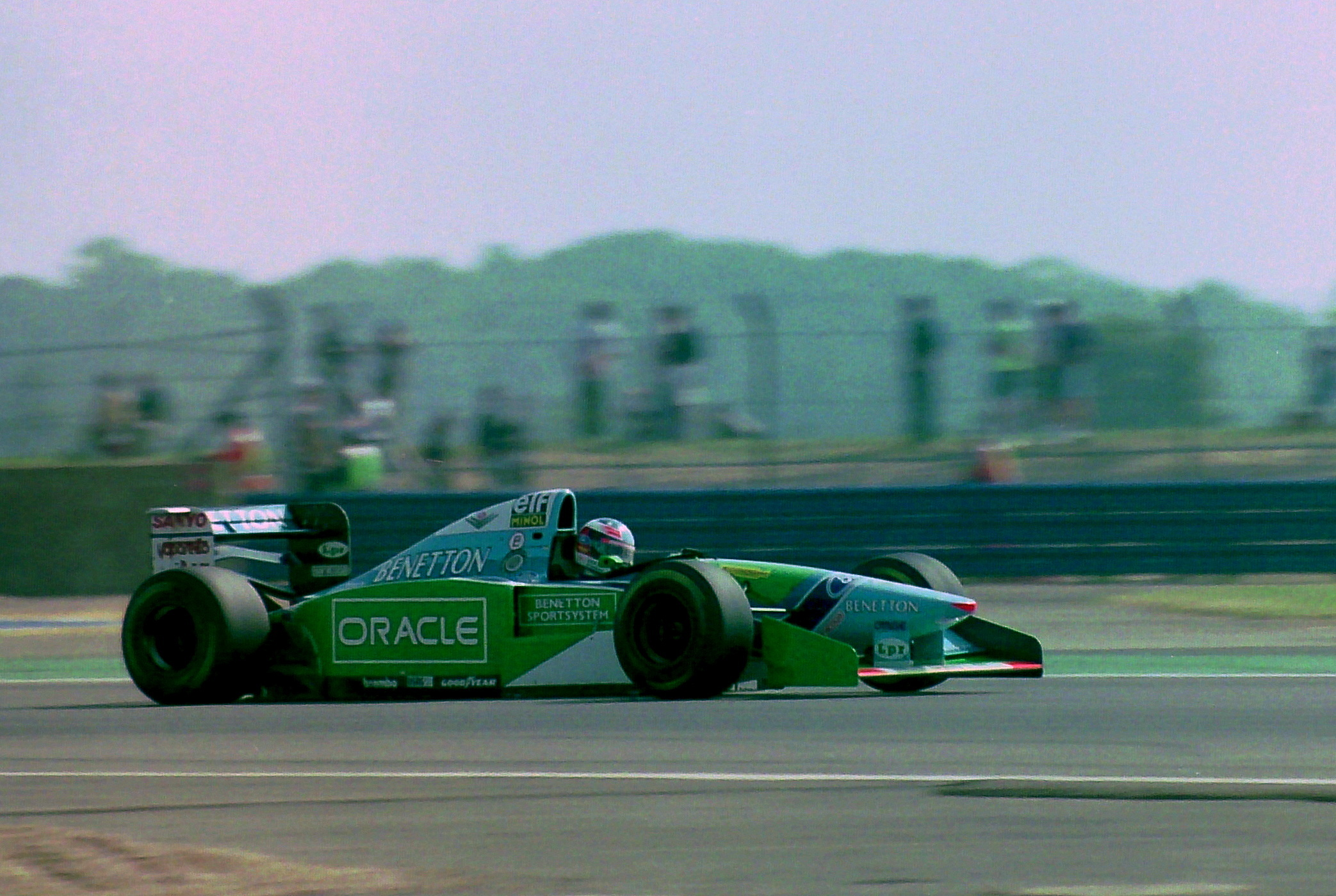 Michael Schumacher - Benetton 194 at the 1994 British Grand Prix